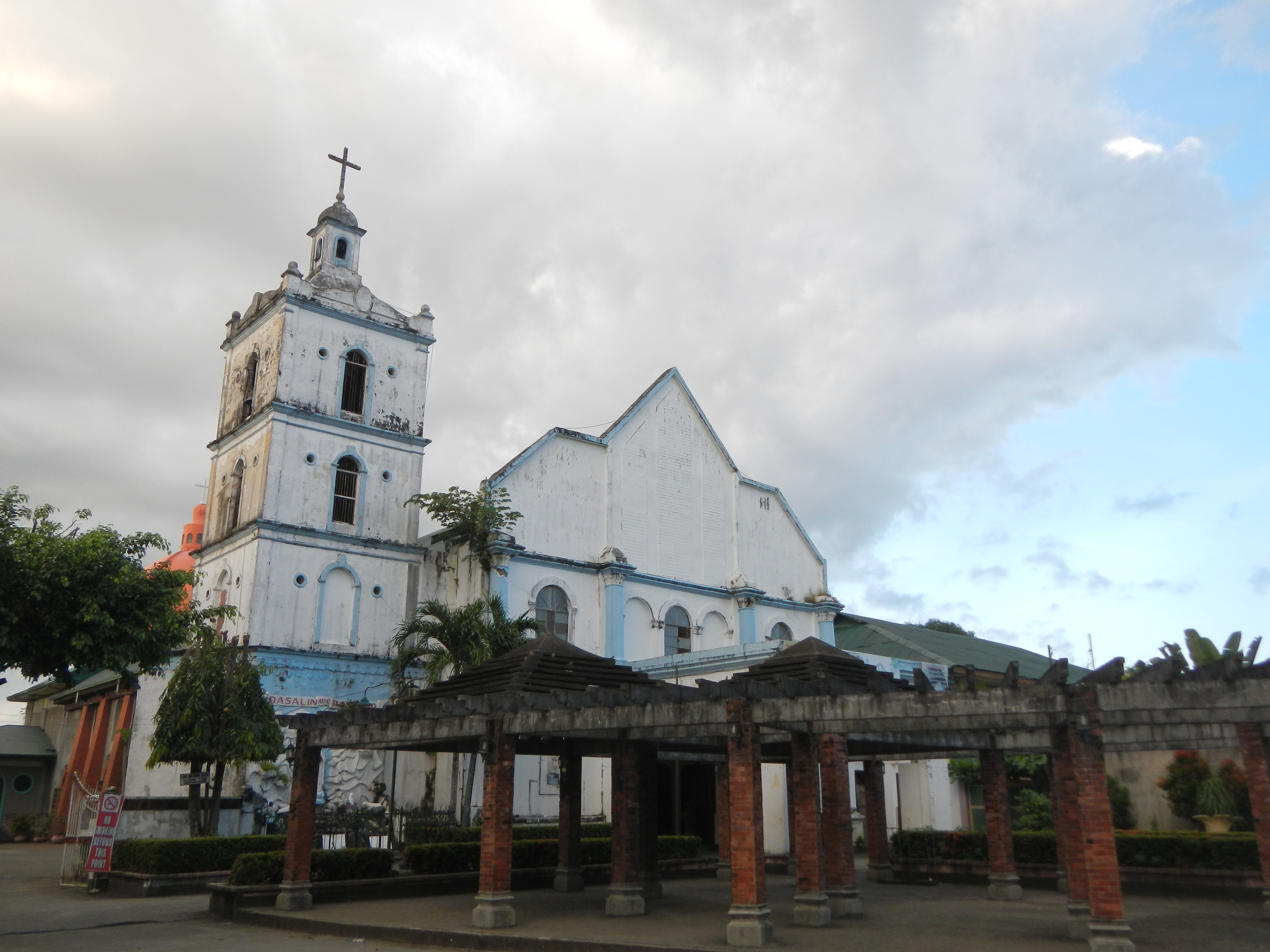 Facade, Saint Anthony Abbot Parish Church, San Antonio, Nueva Ecija[1][2]